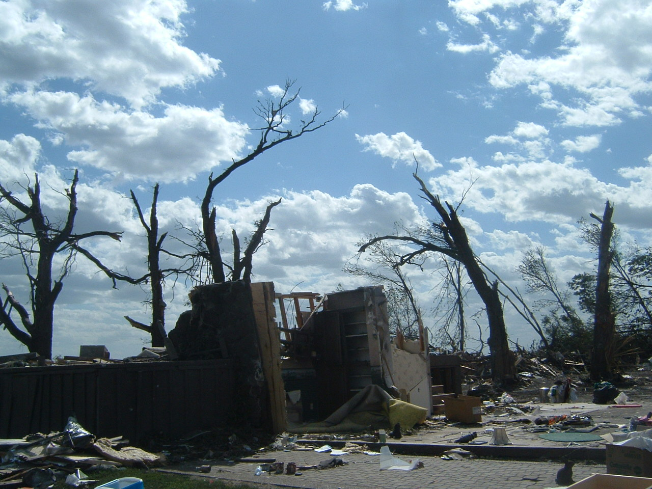 Damage to a home and trees near Willmar, Minnesota from a tornado on July 11, 2008.